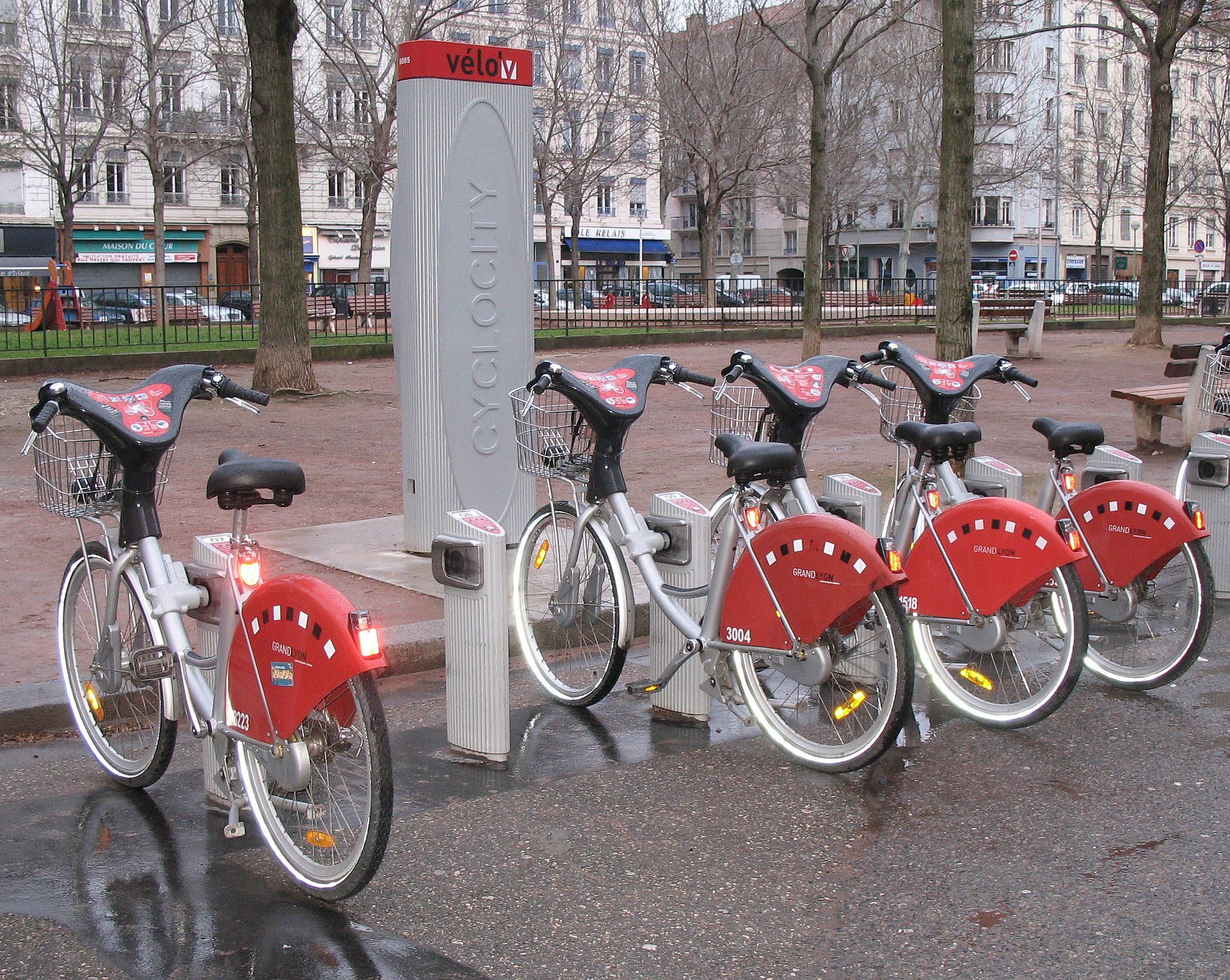 Rental station of the public bicycle service Vélo'v at Place Edgar Quinet, 6th district, in Lyon, France